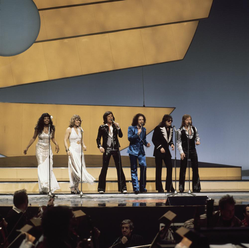 Les Humphries Singers at a rehearsal for the Eurovision Song Contest 1976.